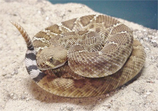 Photographer: LA Dawson Animal courtesy of Austin Reptile Service.